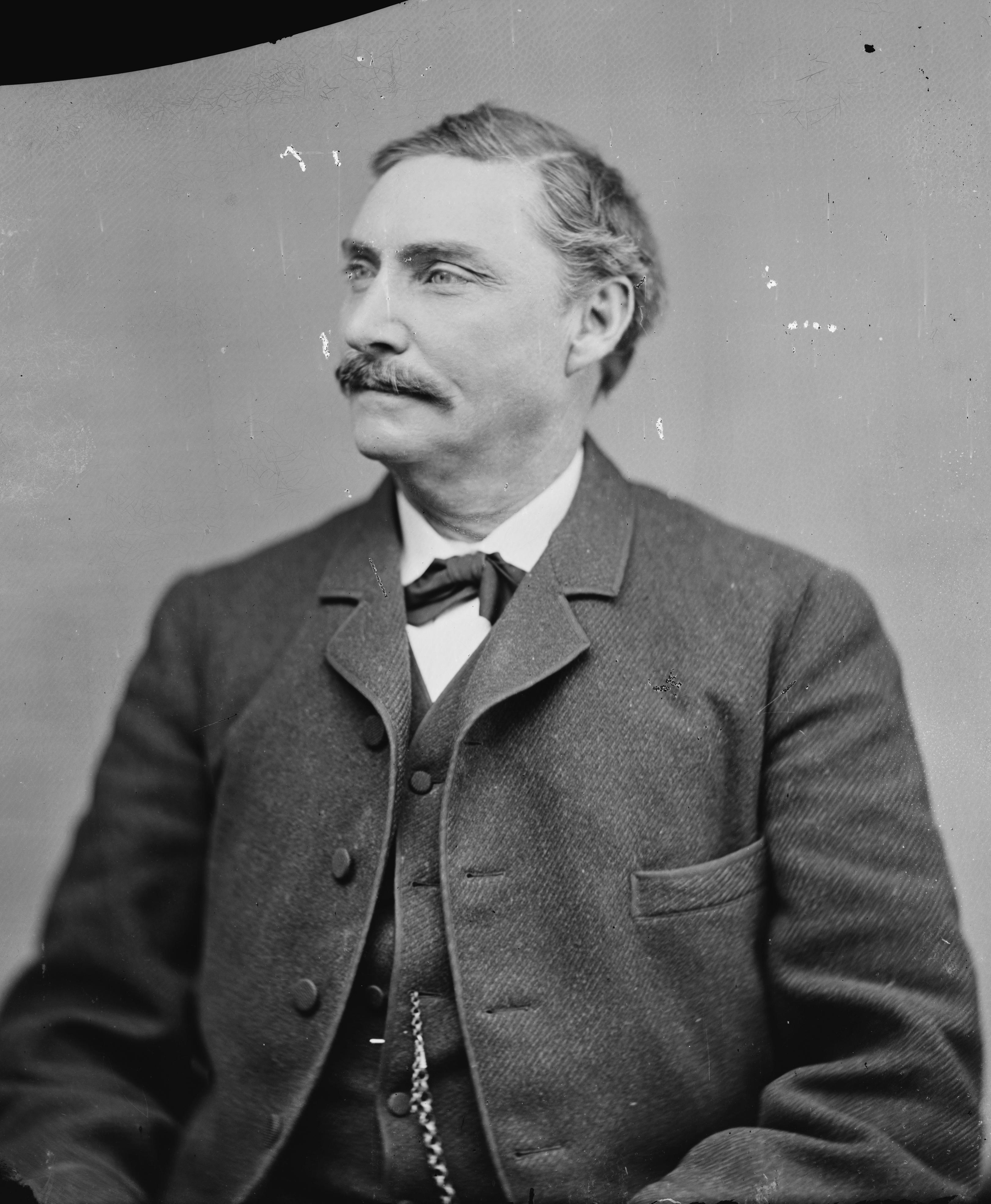 Wilkinson Call. Library of Congress description: "Call, Senator Wilkinson of Florida, Gen. in Confederate Army" Note: Post-war photograph of Major Wilkinson Call, C.S.A., Assistant Adjutant General, General Finegan's staff